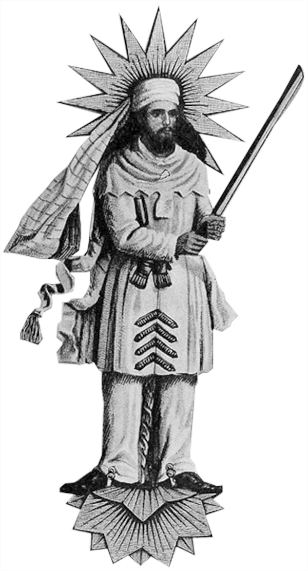 19th century Indian-Zoroastrian perception of Zoroaster derived from a figure that appears in a 4rd century sculpture at Taq-e Bostan in south-western Iran. The original 4th century high-relief scene depicts the investiture of Ardeshir II, with the figure later perceived to be Zoroaster standing to the left of the king. A photograph of the sculpture is available on commons as file:Taq-e Bostan - High-relief of Ardeshir II investiture.jpg. In both the original and the 19th century interpretation, the figure bears a barsom in hand. This ritual implement, consisting of a (usually unbound) bundle of rods or sticks, is used even today to solemnize Zoroastrian religious ceremonies. In the reinterpretation, the figure wears the ceremonial headgear of a Zoroastrian high priest. In the academic literature of 19th- and early 20th century, the figure in the carving was indeed assumed to be an depiction of Zoroaster. That assumption is no longer followed today (it is generally assumed to be the yazata of "binding oath", guaranteeing/blessing the investiture). Like most other 19th century Indian Zoroastrian images of Zoroaster, the facial features depicted in the reinterpretation are strongly influenced by western depictions of Jesus. Together with other Indian Zoroastrian religious art (to some extent also beliefs and practices), this image began appearing among the Zoroastrians of Iran some time after 1855. For a review of this and other "Zoroaster" imagery, see: Stausberg, Michael (2002), Die Religion Zarathushtras, Vol. I, Stuttgart: Kohlhammer, pp. 58-59. The book includes a CD with a high-res color version of this portrait.